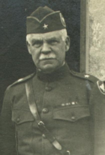 Brigadier General George W. McIver, commander, 161st Infantry Brigade, World War I